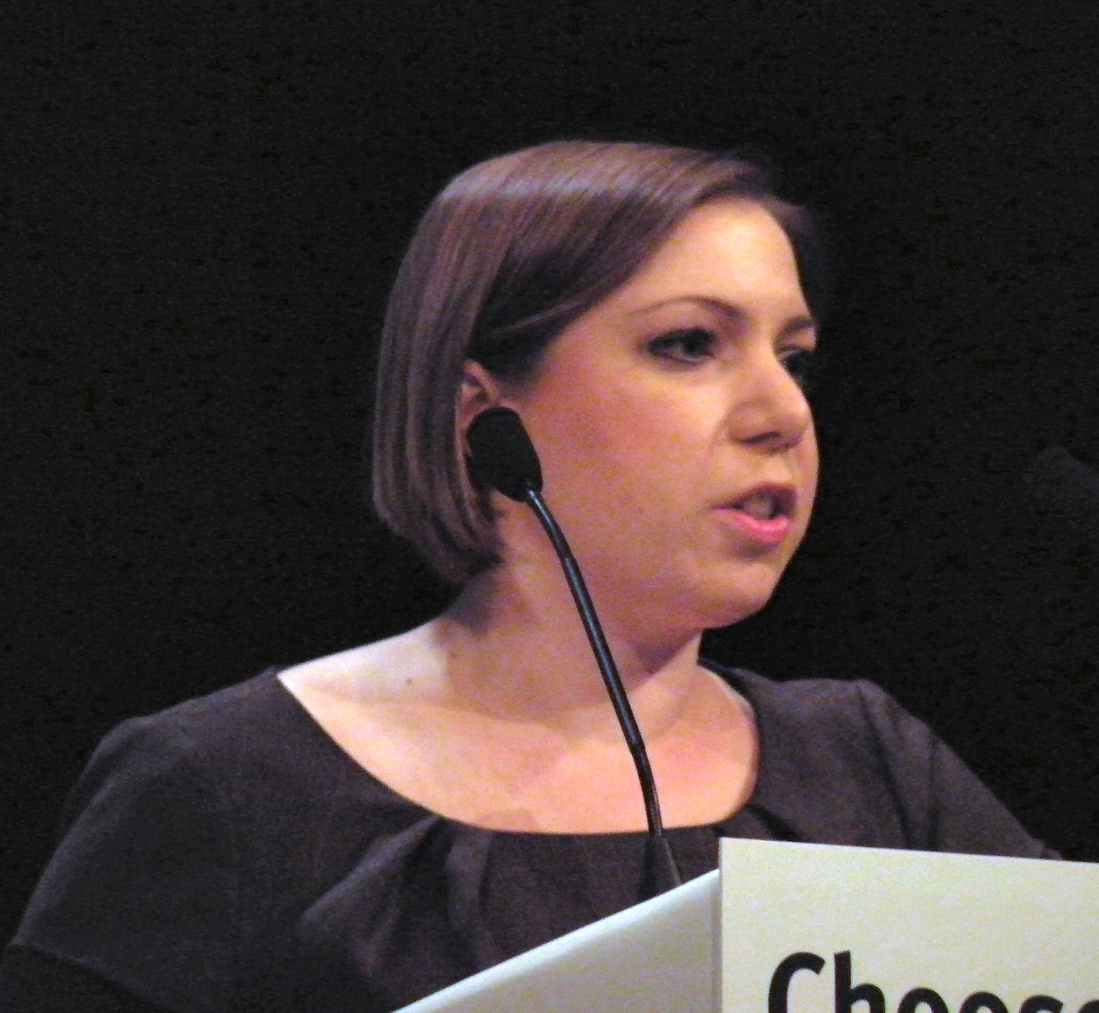 Sarah Teather MP addressing a Liberal Democrat conference in the Harrogate International Centre